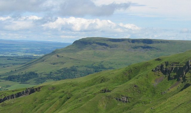 Stronend. A supporting photo taken from the Campsie Fells, showing Stronend.